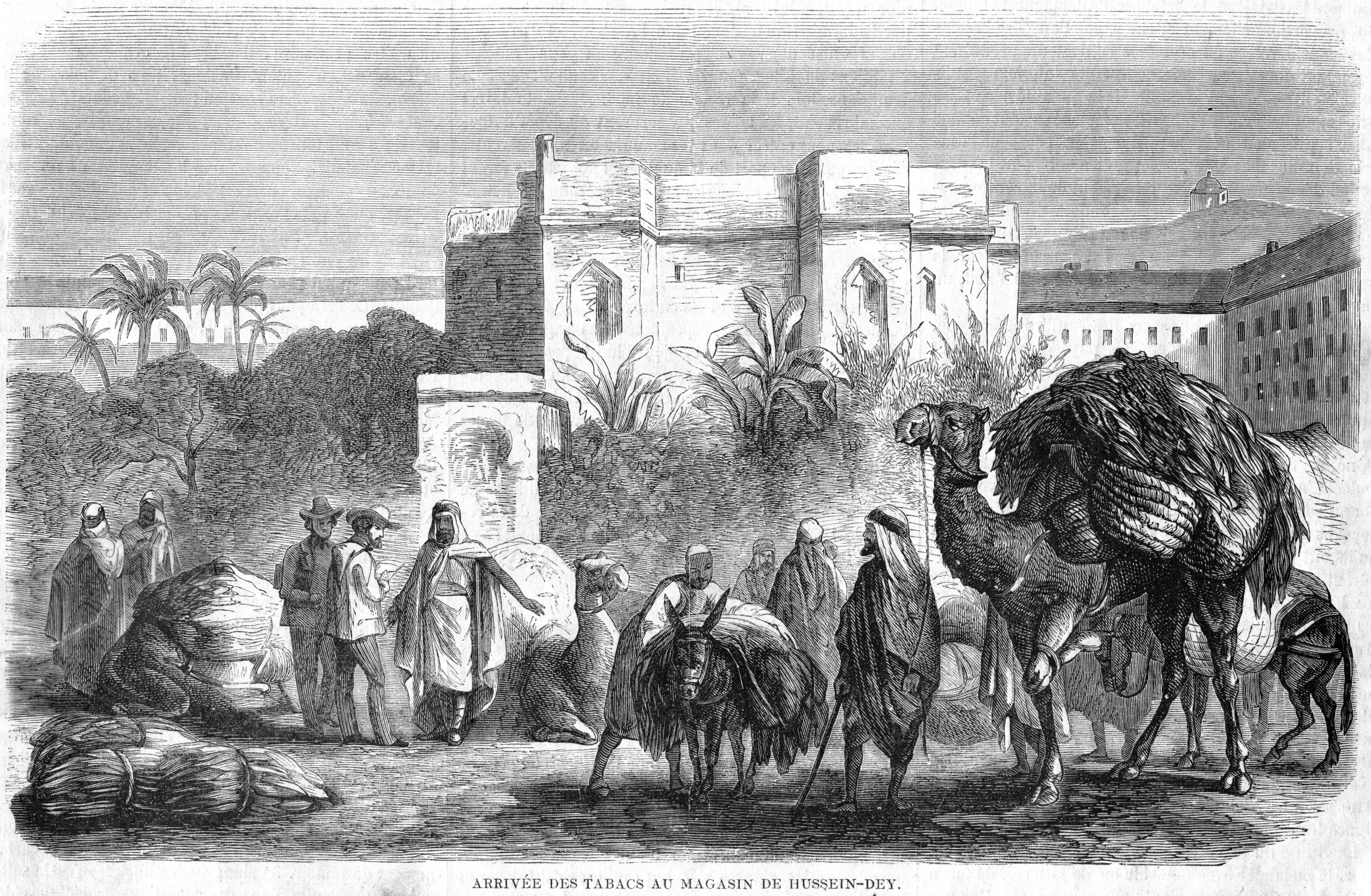 L'Illustration 1862 gravure Arrivée des tabacs au magazin de Hussein-Dey